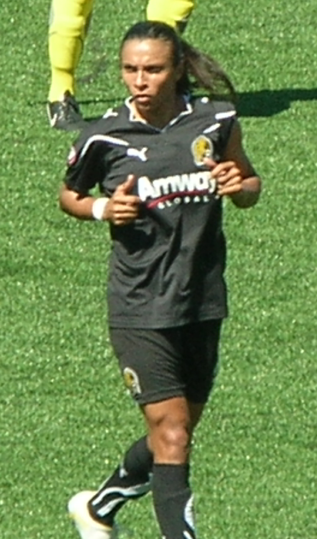 FC Gold Pride forward Marta at the 2010 WPS Championship at Pioneer Stadium in Hayward against the Philadelphia Independence. Marta scored a goal, had two assists, and earned MVP honors in the the Gold Pride's 4-0 victory.